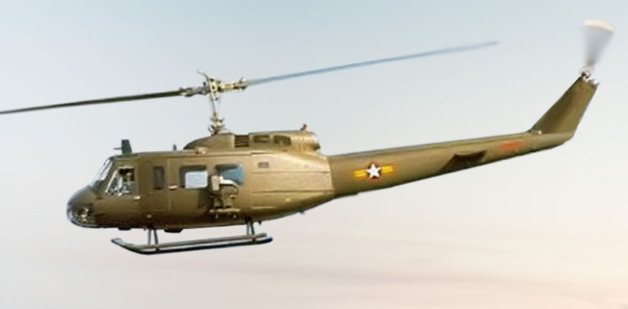 A South Vietnamese Air Force Bell UH-1D